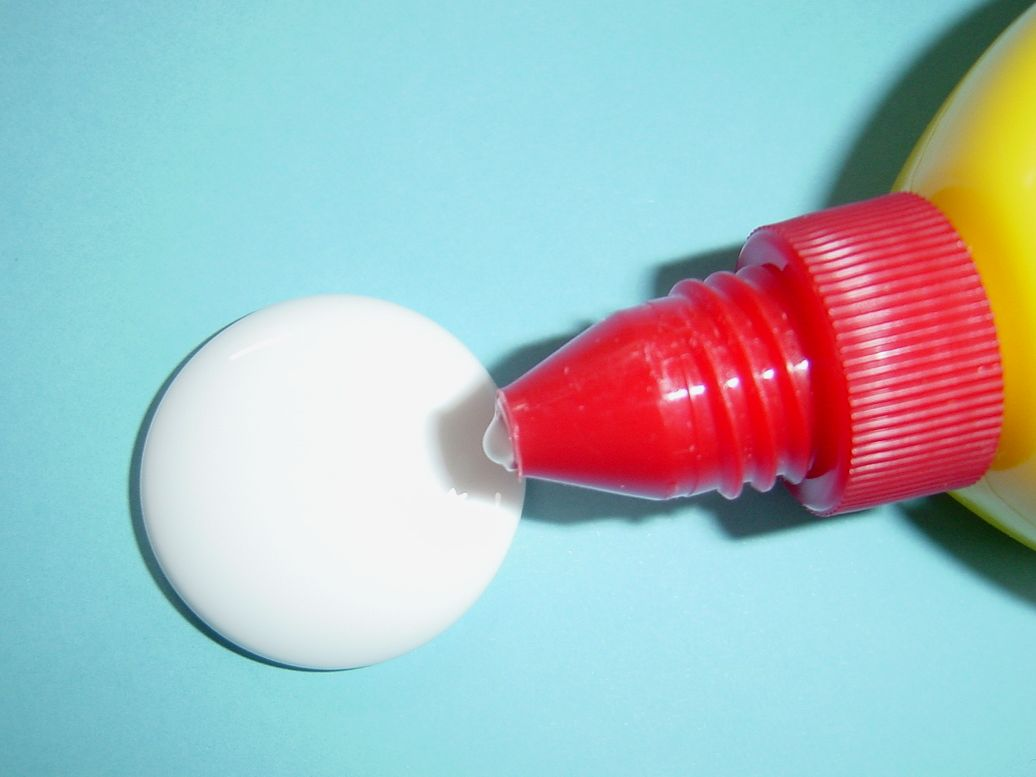 Adhesives, Polyvinyl acetate emulsion adhesives